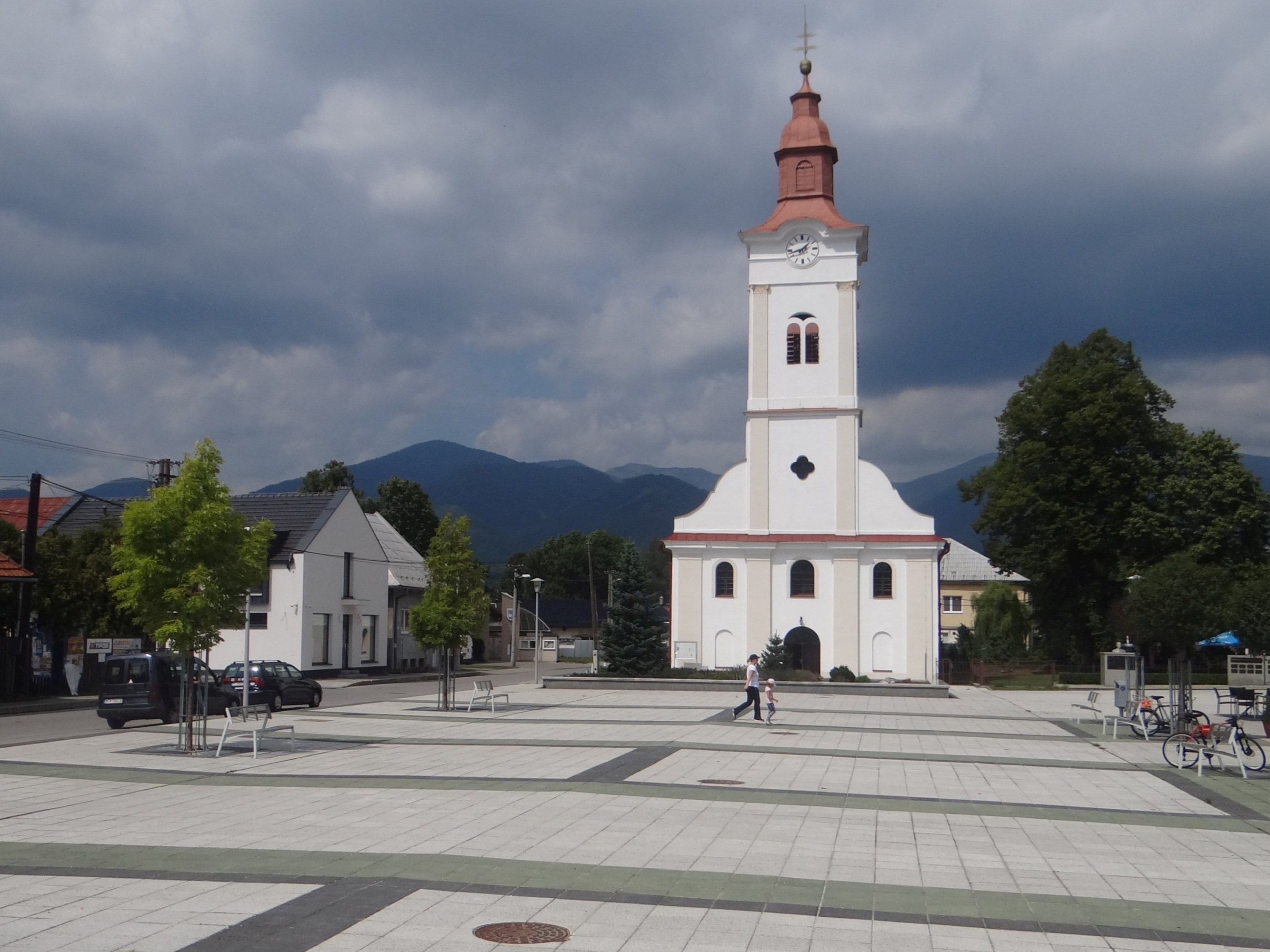 Sučany. Evangelic church